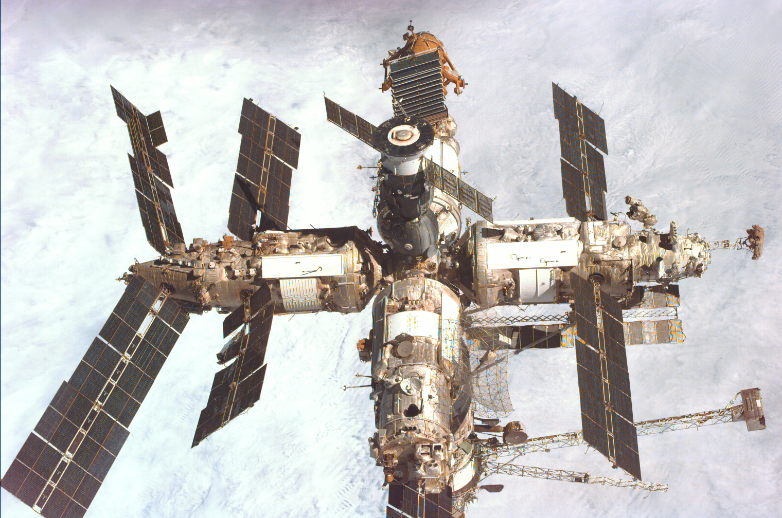 Russia's Mir space station taken from Space Shuttle STS-89 mission